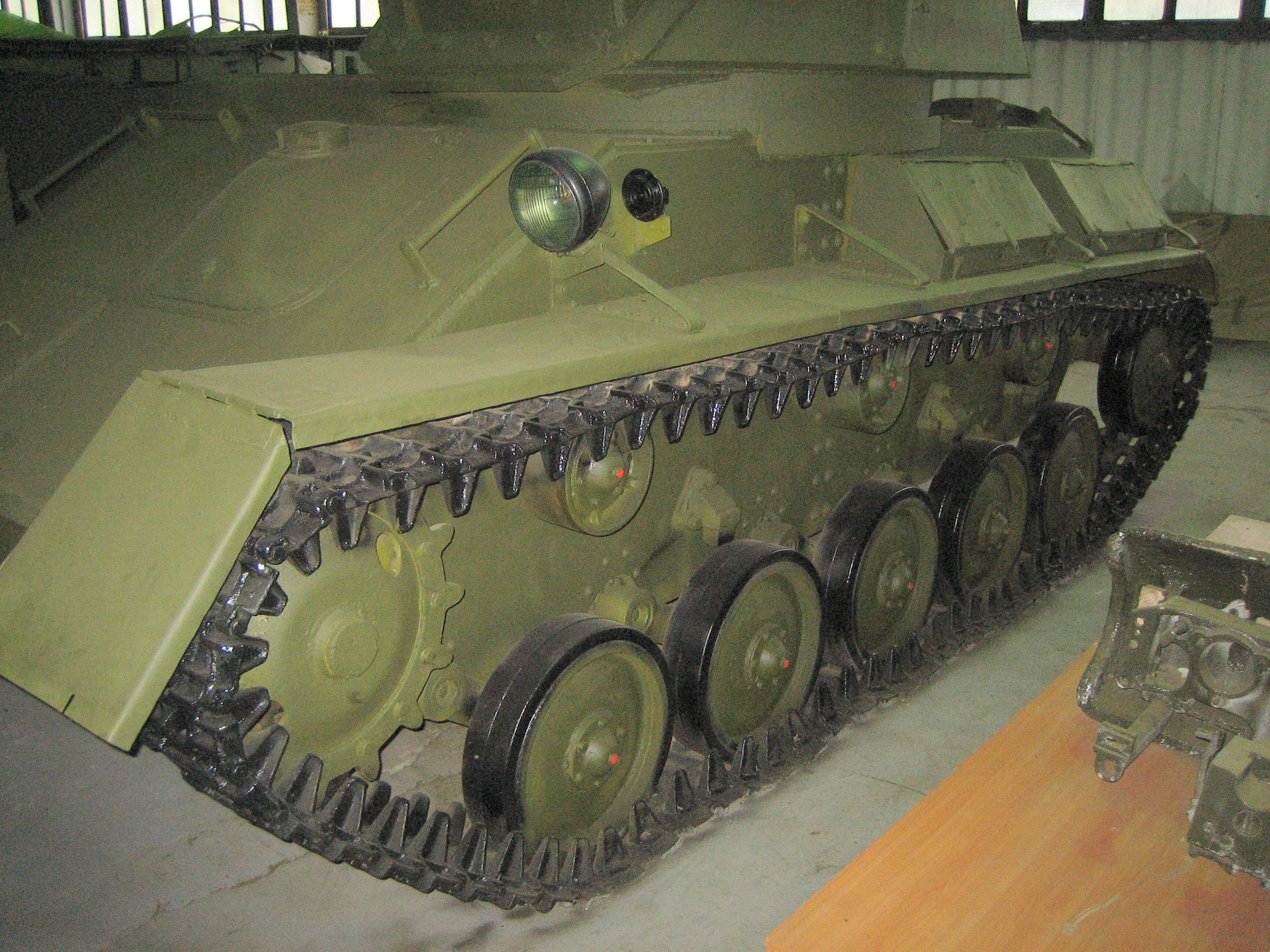 Soviet light infantry tank T-80, displayed in Kubinka Tank Museum. Photo taken on September 9, 2007. Source: Photo by me, User:Saiga20K.